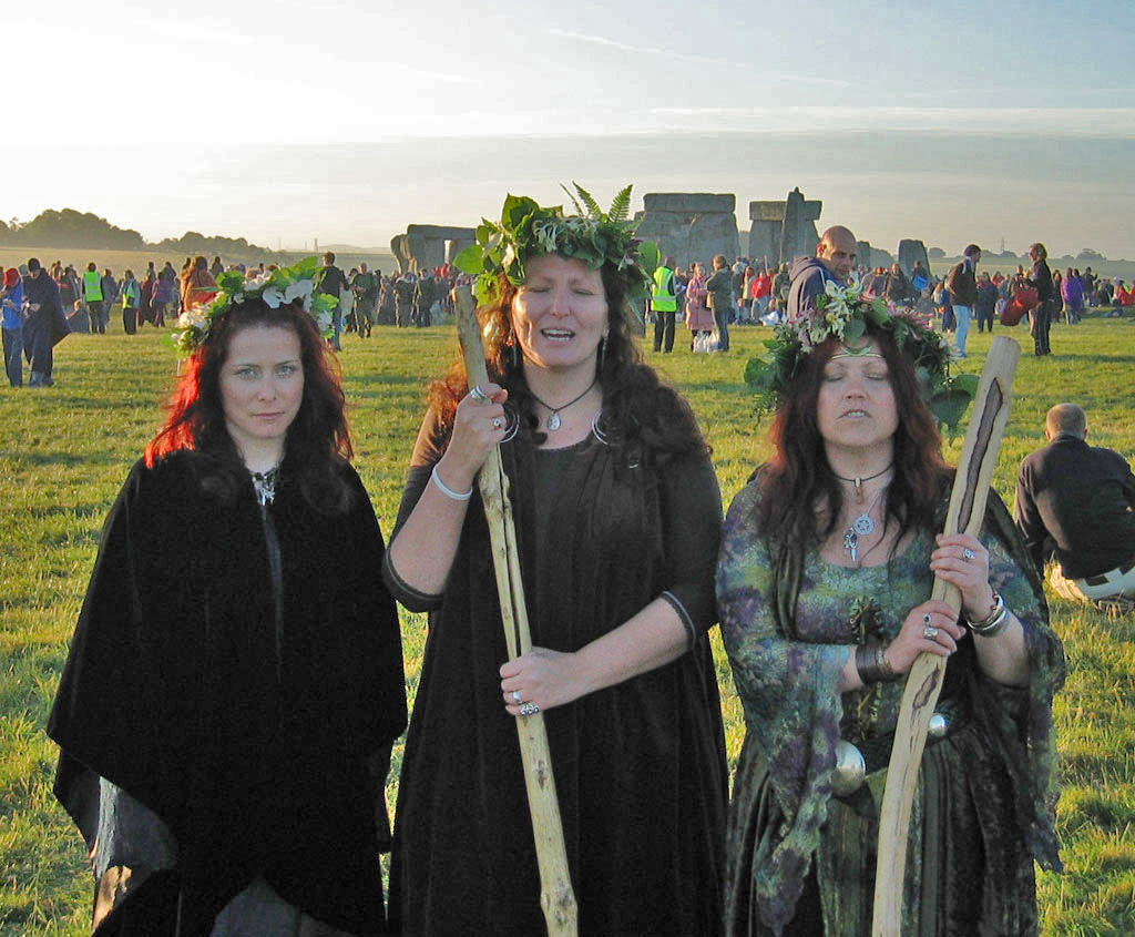 Three female druids on the morning of the summer solstice at Stonehenge after sunrise. They wear brown and green robes in sympathy with Mother Earth and carry wooden staffs. Their headdresses contain tree leaves (poplar & beech?), ferns and honeysuckle.